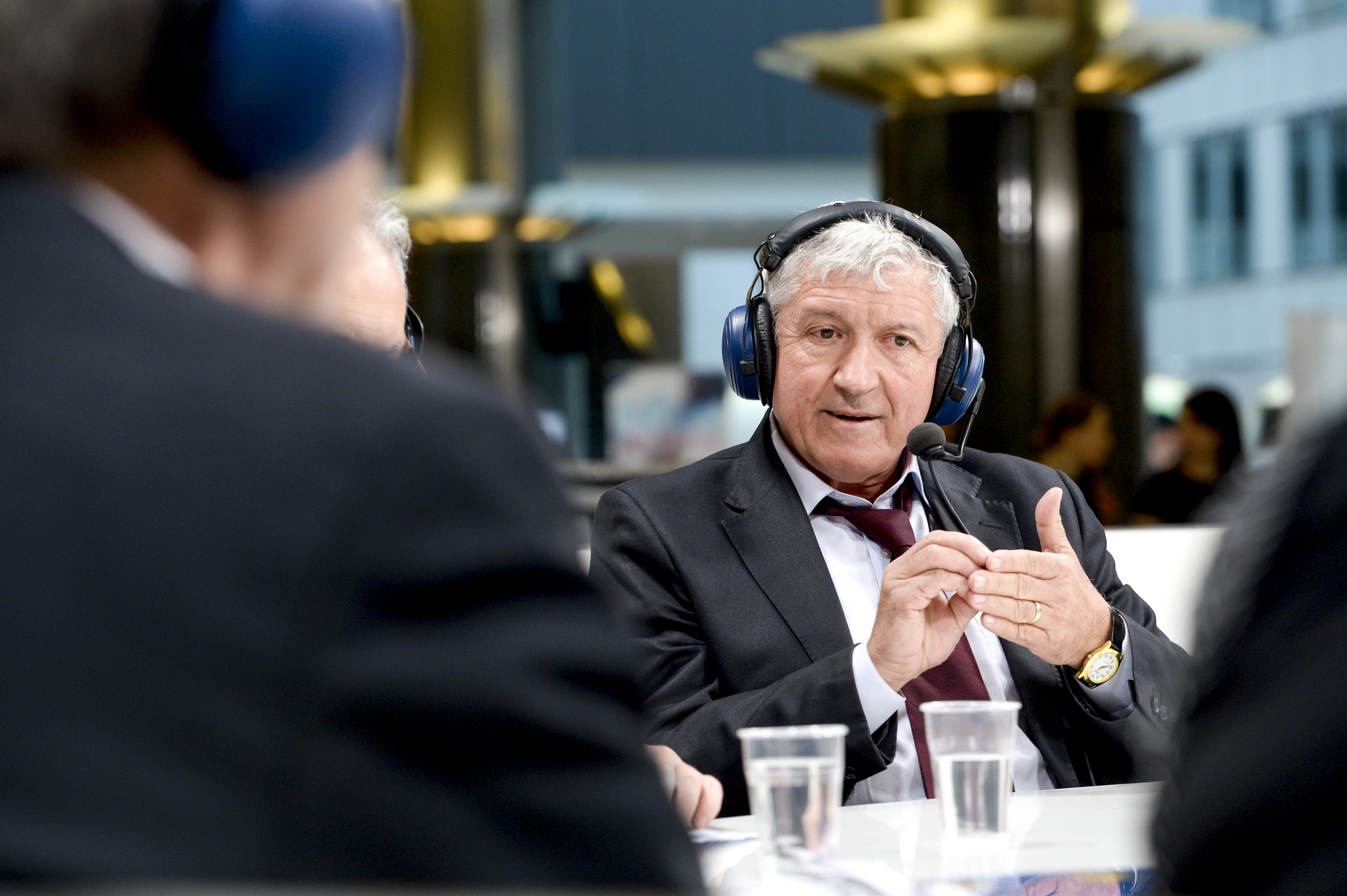 Roaming was supposed to be the big flagship policy which Europe’s citizens could easily understand. The ship, however, ran aground and had to be refloated with a little less ballast. Europe’s member states have not been unified on what ‘roam like at home’ should look like – countries such as Spain, with large telecoms industries, favoured higher data charges, the European Parliament favoured much lower rates. It was a case of ‘call back later.' The European Commission got the message and tried to repackage the roaming deal. To discuss Europe’s telecoms roaming market, its financial and political impact, Euranet Plus and Radio România, public service, a member of the Euranet Plus network, hosted a live radio debate in the European Parliament. The debate was held in Romanian, and then in English. Get all the details: Part 1/2 | Romanian | moderator Luana Pleșea | guests: - Renate WEBER, MEP, Romania, Group of the Alliance of Liberals and Democrats for Europe - Marian-Jean MARINESCU, MEP, Romania, Vice-Chair of the Group of the European People's Party (Christian Democrats) - Adina-Ioana VĂLEAN, MEP, Romania, Vice-President of the European Parliament, Group of the European People's Party (Christian Democrats) - Mircea DIACONU, MEP, Romania, Group of the Alliance of Liberals and Democrats for Europe, Vice-Chair of the Committee on Culture and Education - Liviu HOPÂRTEAN, President of the Association and Radio TV Arthis, Belgium